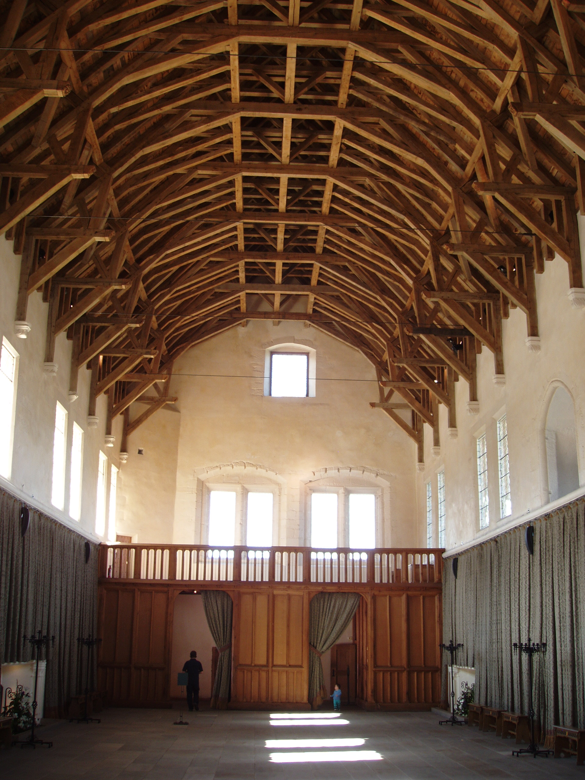 Photo taken by self of the Great Hall interior of Stirling Castle, facing North. This castle is in Scotland.